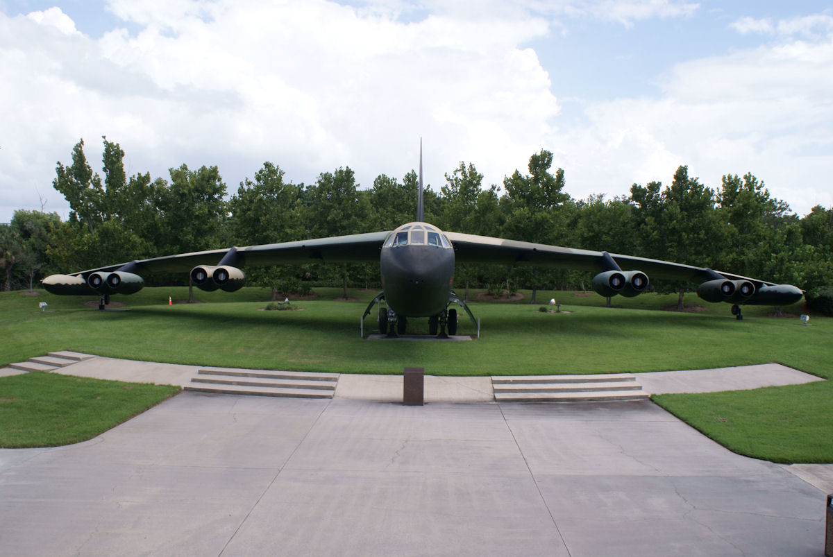 Boeing_B-52D_Stratofortress_56-0687_Above_Head_On_Orlando_Airport_11August2010